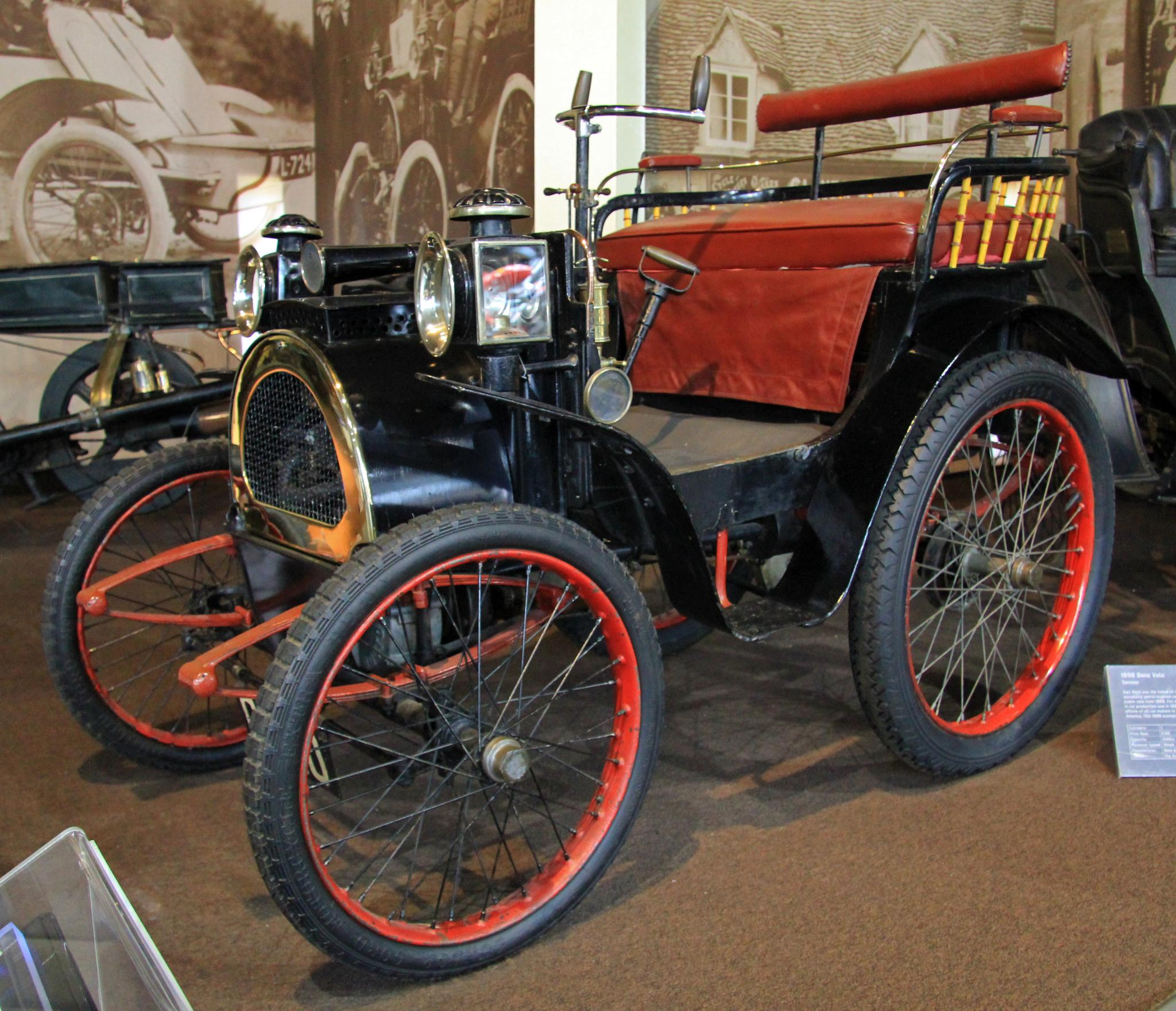 1899 Renault 1 3/4hp French Louis Renault built his first car in 1898 and in the following year the Renault firm was founded with his brothers, Marcel and Fernand. This exhibit is believed to be the oldest Renault in existence. The Renault 1 3/4hp was the first production car to use a propeller shaft to transmit power to the rear wheels in place of chains and belts. Cylinders: 1 Maximum Speed: 31mph Capacity: 273cc Price New: £160 Manufacturer: Renault Freres, Billancourt, Paris Owner: Mr C. Ironmonger Housing a collection of over 250 automobiles and motorcycles telling the story of motoring on the roads of Britain from the dawn of motoring to the present day, the award winning (Winner - The International Historic Motoring Awards of the Year 2012) National Motor Museum appeals to all age groups. From World Land Speed Record Breakers including Campbell’s famous Bluebird to film favourites such as the magical flying car, Chitty Chitty Bang Bang and rare oddities like the giant orange on wheels. Don’t miss exciting extra features such as the Motorsport Gallery, Wheels and Jack Tucker's Garage - A permanent, multi award-winning 1930's garage has been created within the Museum, complete down to the last nut and bolt and rusty drainpipe. Whilst the building is a complete fabrication, everything in it - all the fixtures, fittings, tools and ephemera - are genuine artefacts collected over a period of 25 years.